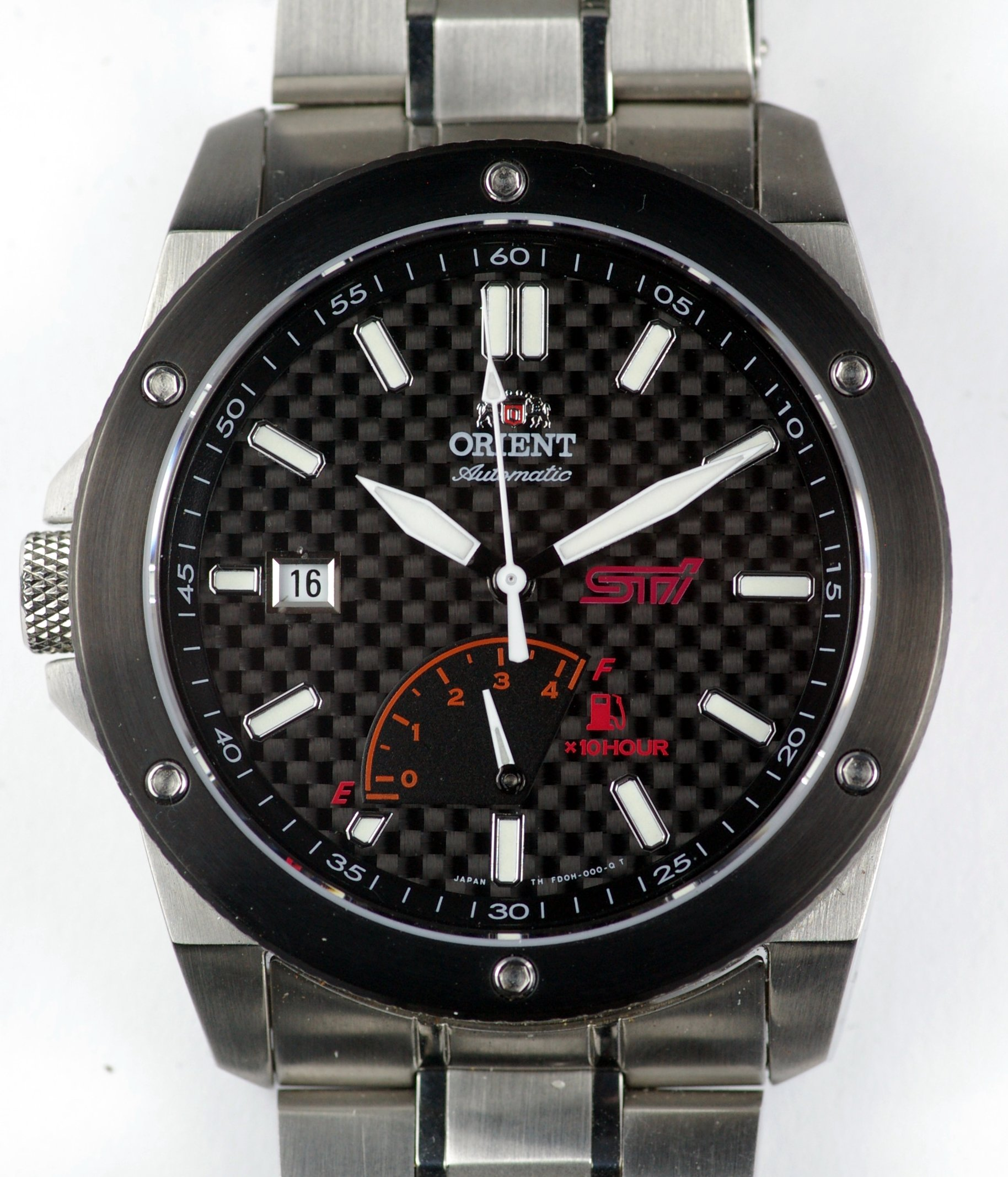 An Orient SFD0H001B watch. Stainless steel case, carbon fiber dial, power reserve indicator. The movement is flipped so that the power reserve will look like a gas gauge, hence the crown being on the left side.